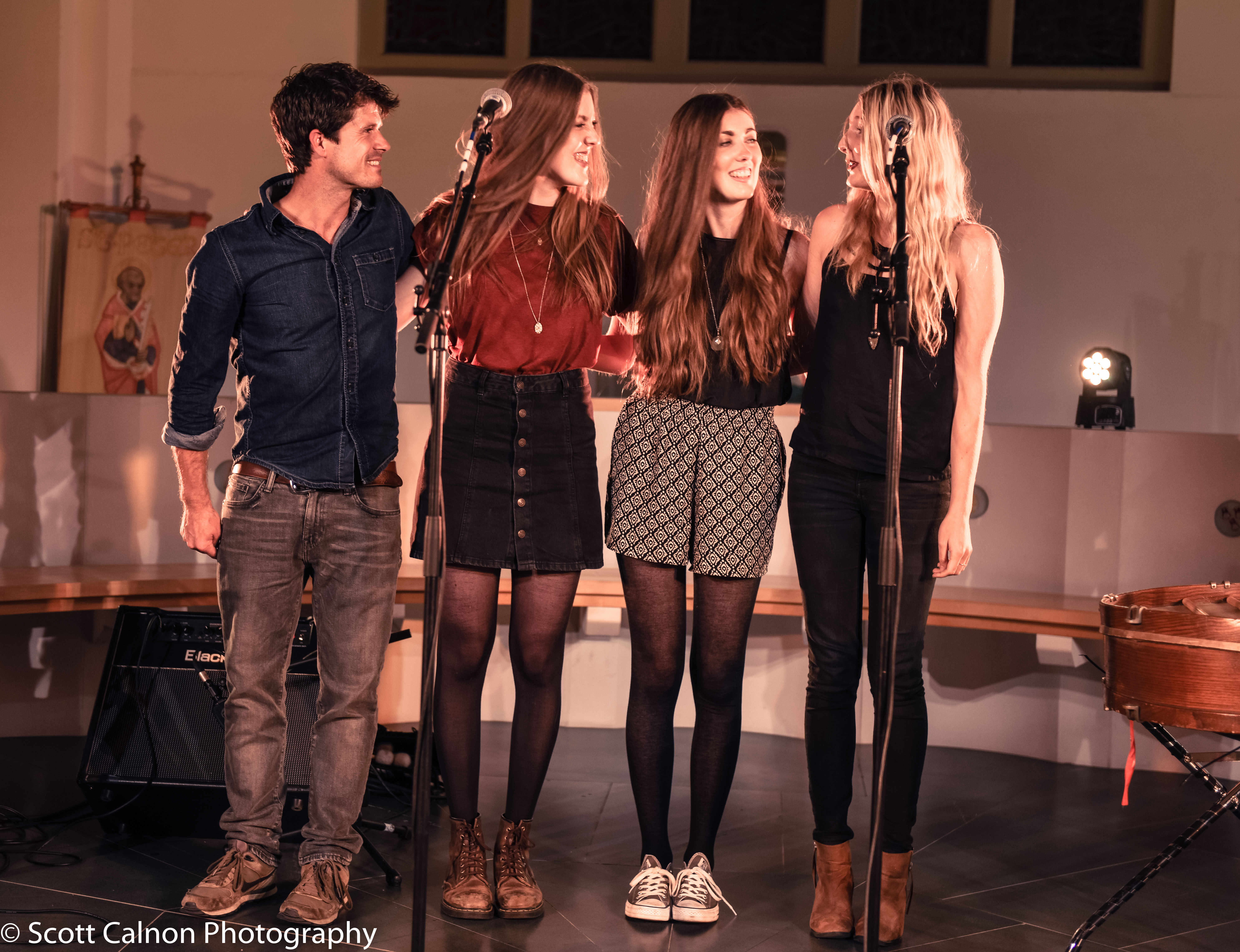 Seth Lakeman featuring Wildwood Kin performance at St Peter & the Holy Apostles Church, Plymouth, September 2016.